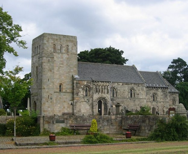 St Cuthbert's parish church, Dalmeny, Edinburgh, Scotland: view from the south, showing the west tower added in 1937